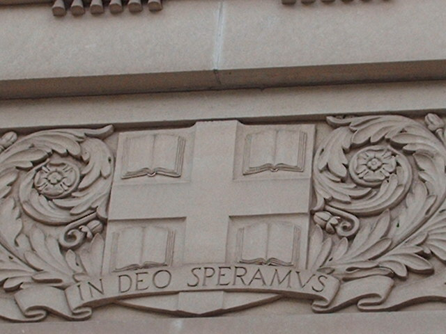 Brown University seal as a building detail. The motto, "In Deo Speramus," is Latin for "In God We Hope."